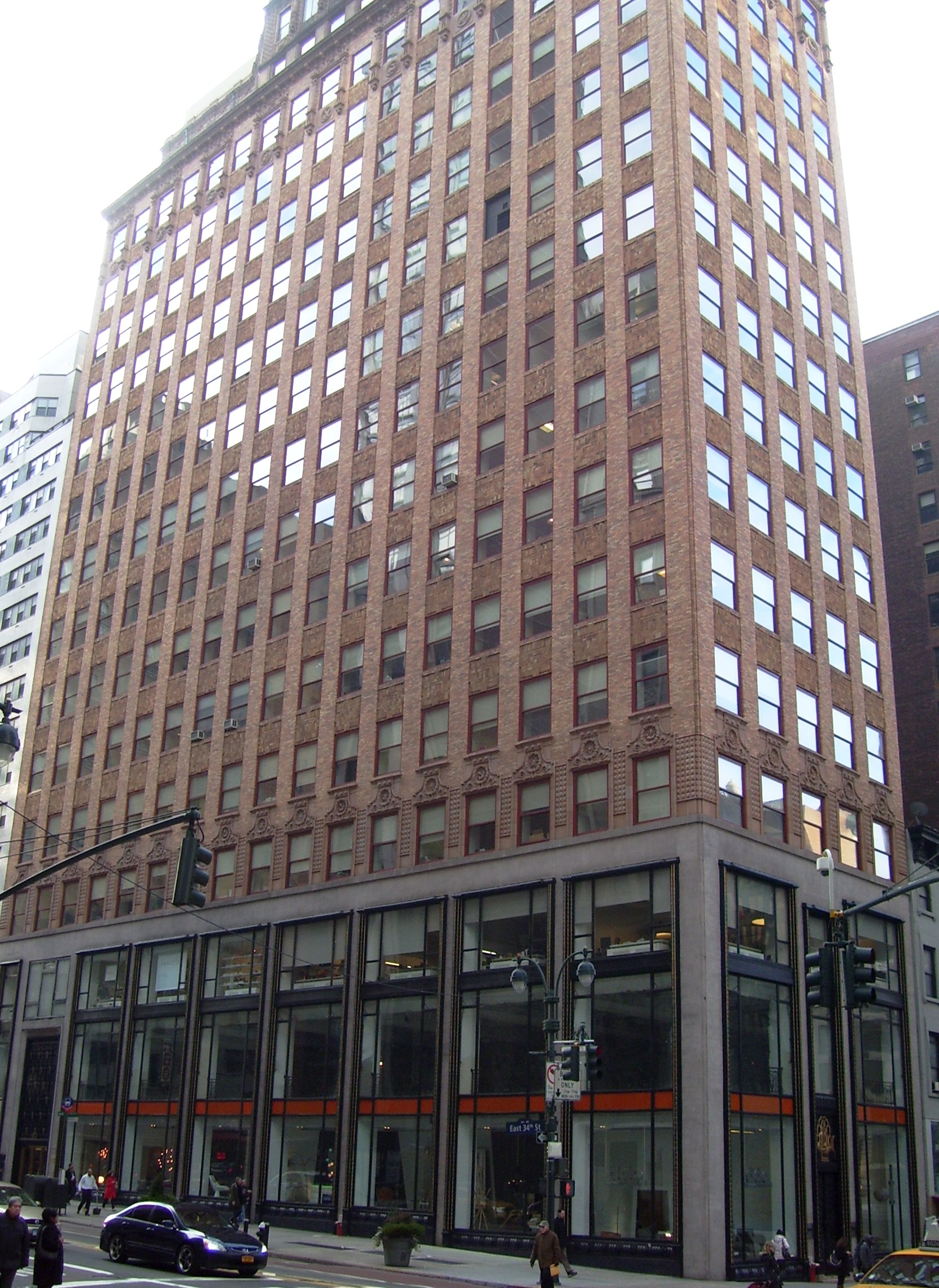 The Madison Belmont building at 181 Madison Avenue on the corner of East 34th Street in the Murray Hill neighborhood of Manhattan, New York City was built in 1924-25 and was designed by the firm of Warren & Wetmore in the neo-Renaissance style combined with aspects of modern design. The ironwork is by Edgar Brandt. The building was designated a NYC landmark on Septemeber 20, 2011. (Source: Designation report)